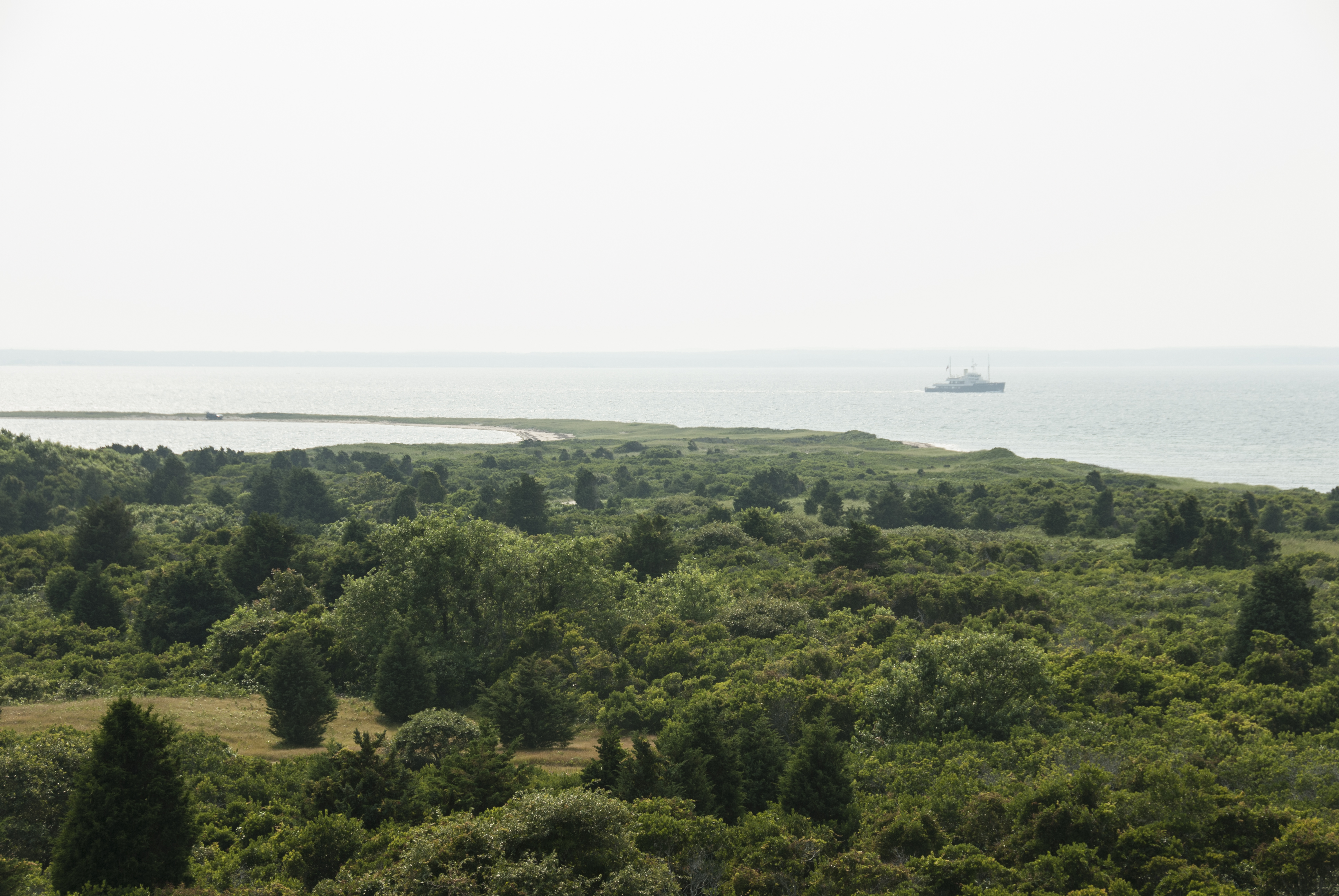 Looking north from Cape Poge Lighthouse over Cape Poge, Chappaquiddick Island, Massachusetts.